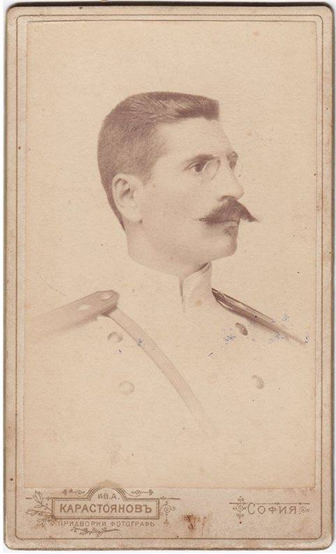 General major Petko Stamov Caklev